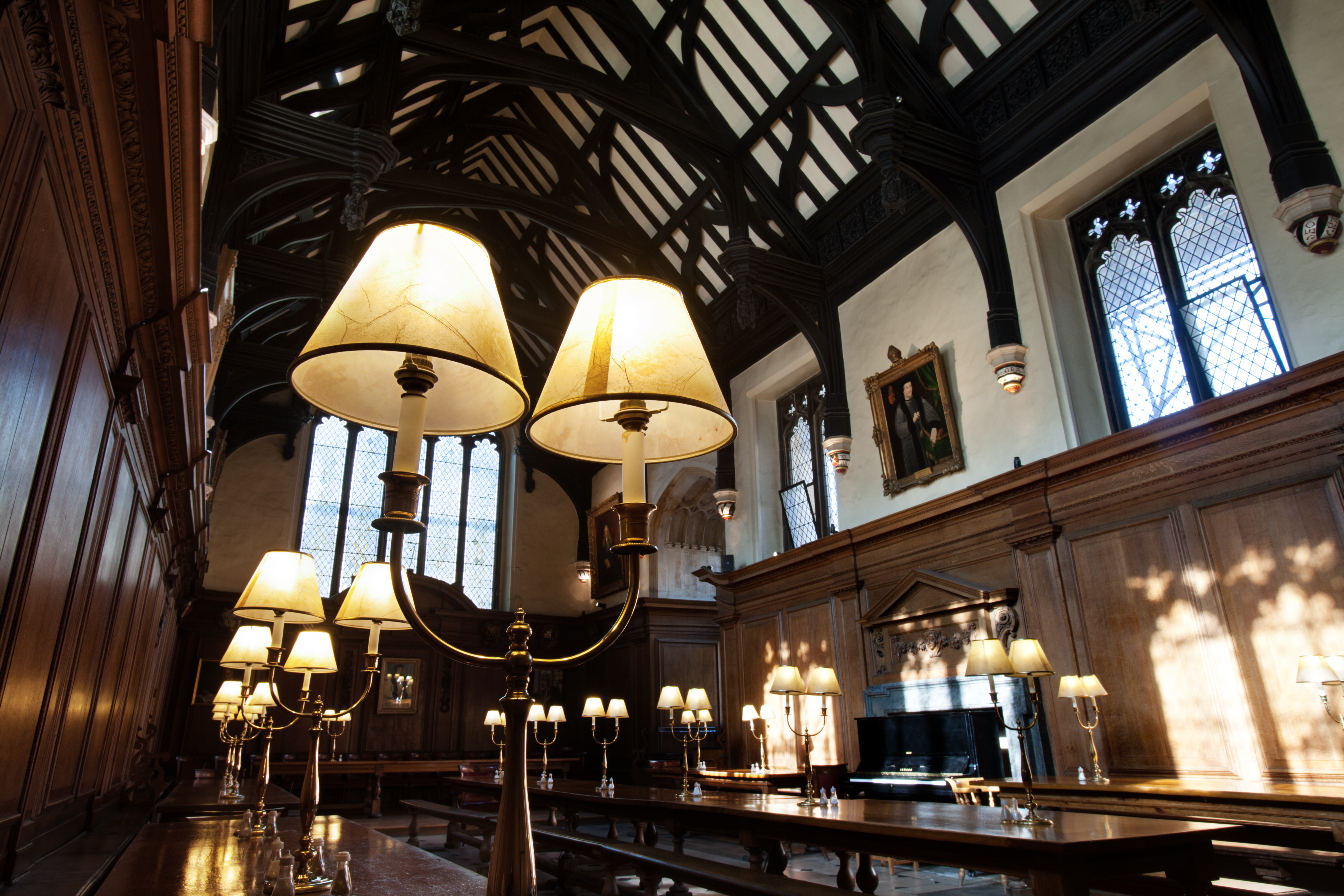 Corpus Christi College, Oxford, UK